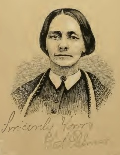 Image of Sarah Palmer Young, published as the frontispiece to her 1867 book The Story of Aunt Becky's Army-Life.